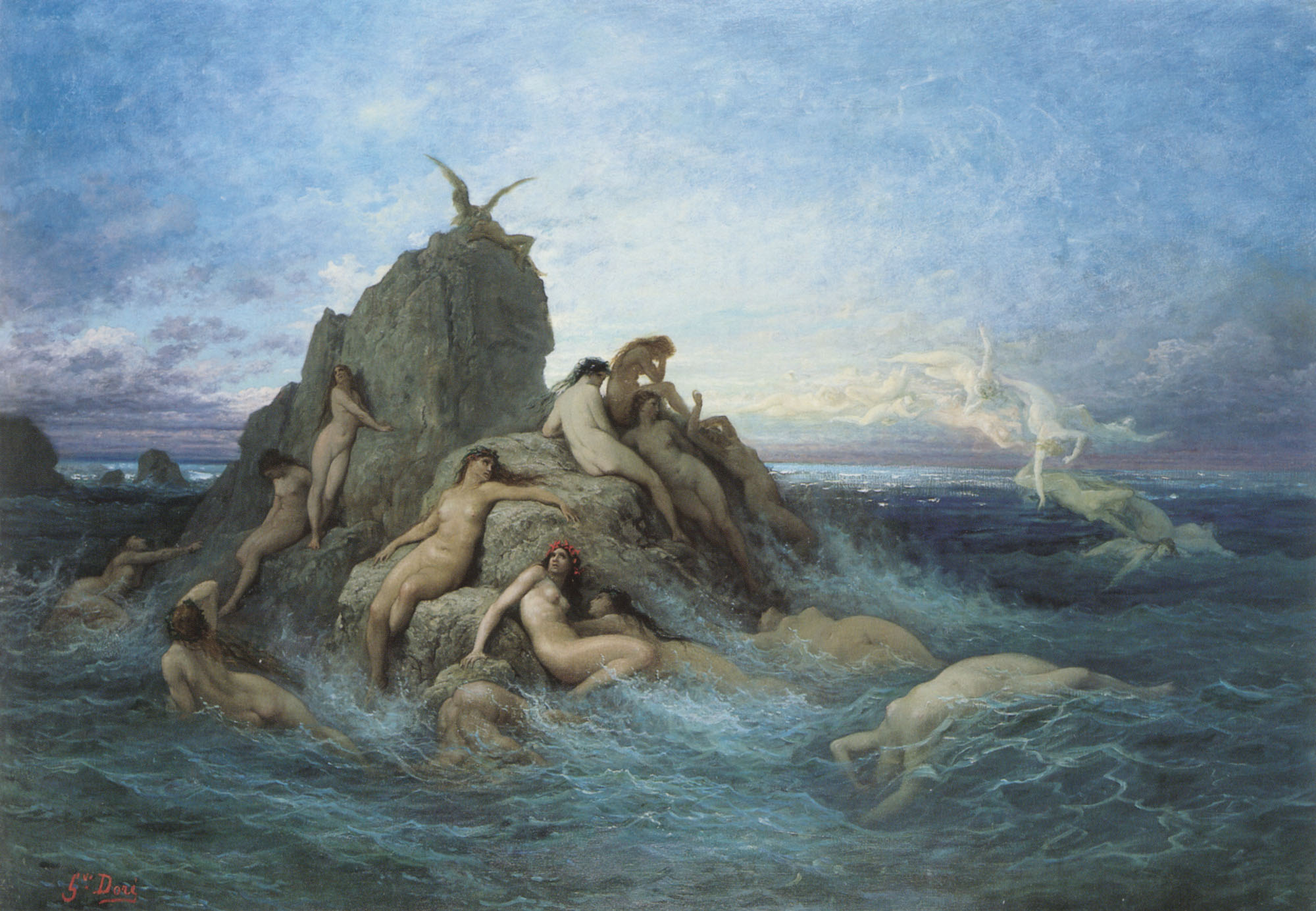 Oceanides (Naïads of the Sea)